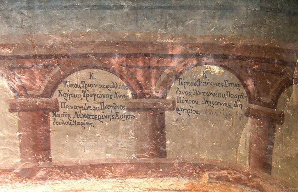 Fresco in the prothesis of Saint Christofer Church in Levki (Zhupanishta).